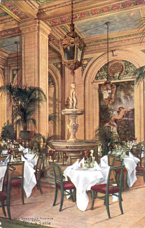 Historical La Salle Hotel in Chicago. Part of a promotional card set by the hotel which according to [1] is dated to c.1915.